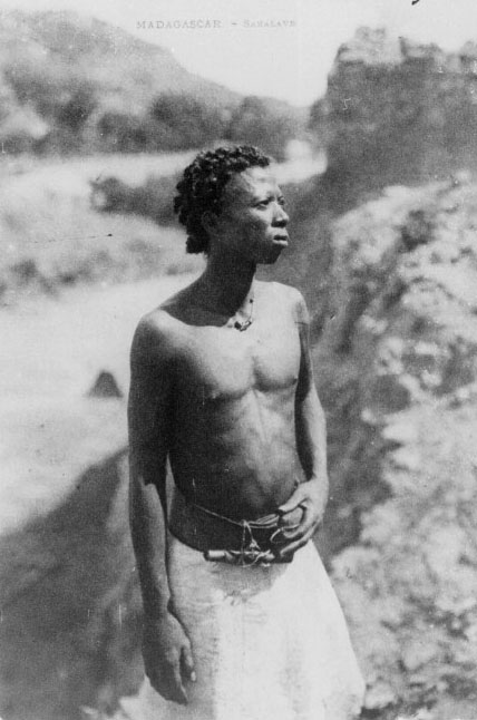 Sakalava man in Madagascar (1908)